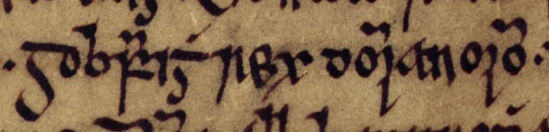 An excerpt from folio 19v of Oxford Bodleian Library MS Rawlinson B 488 (the Annals of Tigernach): "Goffraidh rex Normannorum". The excerpt concerns Gofraid Crobán, King of the Isles (died 1095).